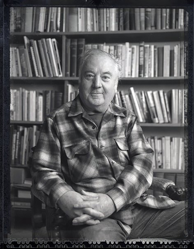 Archie Green, San Francisco, California